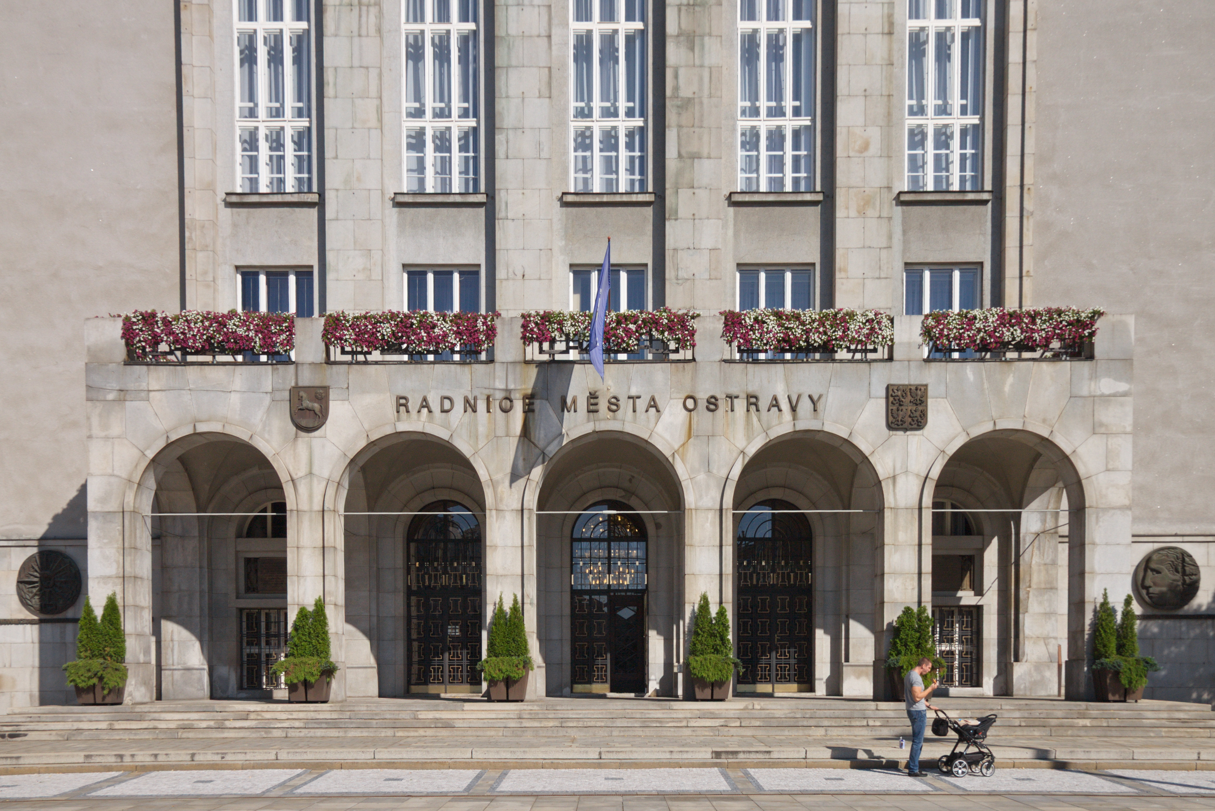 New Town Hall, Moravská Ostrava, Ostrava. Moravian-Silesian Region, Czech Republic.